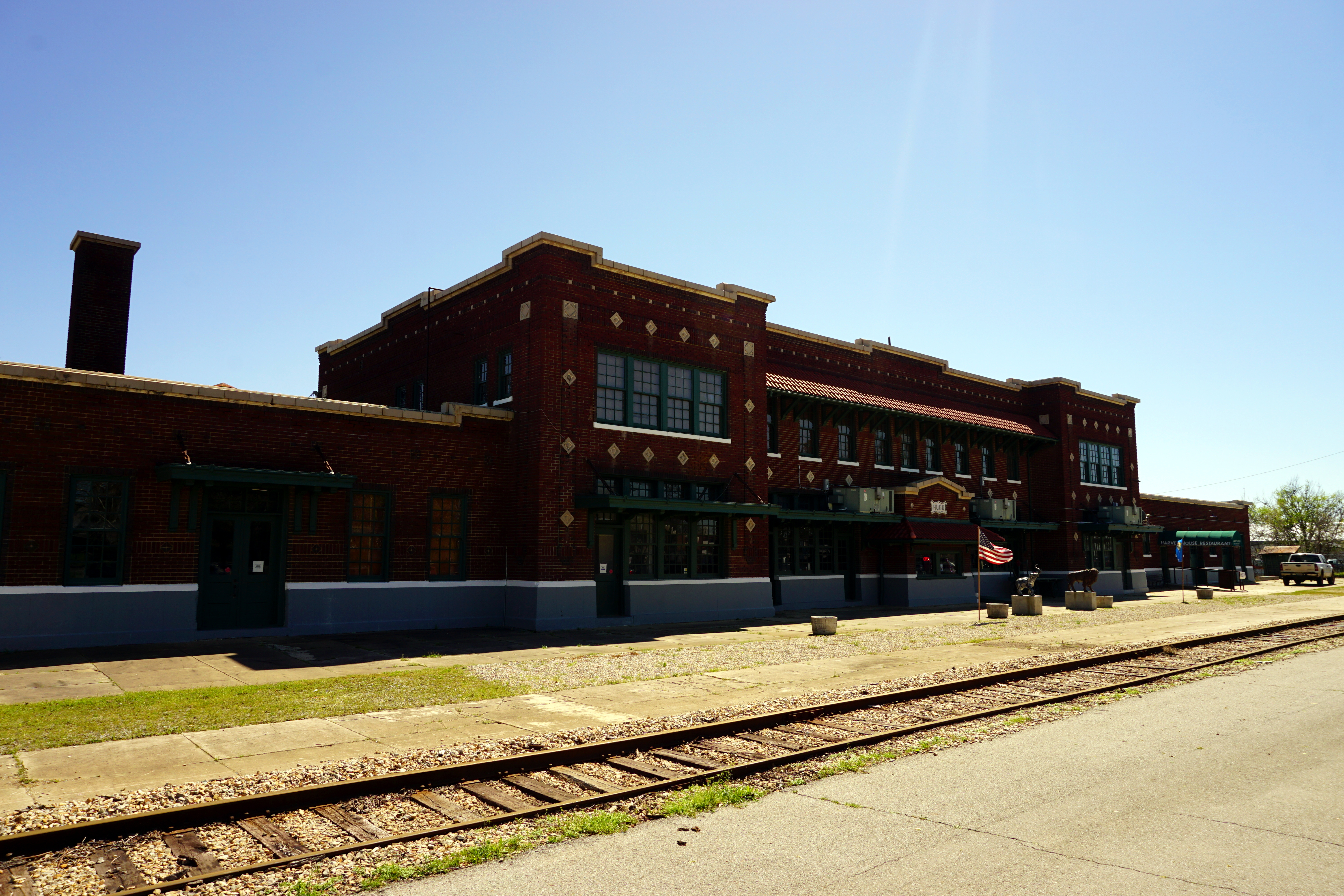 The exterior of the Frisco Depot Museum in Hugo, Oklahoma (United States).